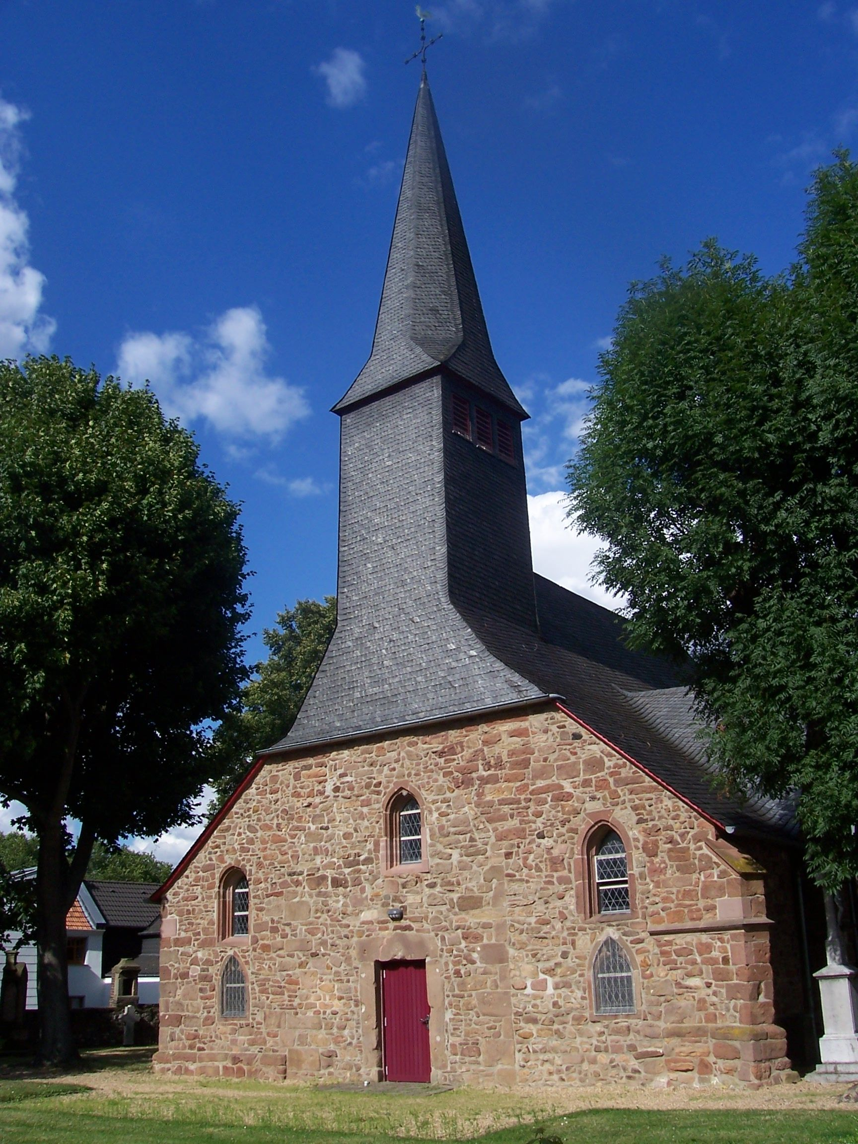 the old church of Düren-Niederau (front side)